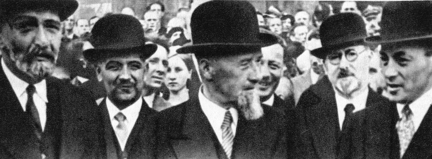 Second Polish Republic leading politicians: Walery Sławek, general Jan Górecki, Aleksander Prystor, Jan Piłsudski (Józef Piłsudski's brother), Janusz Jędrzejewicz.